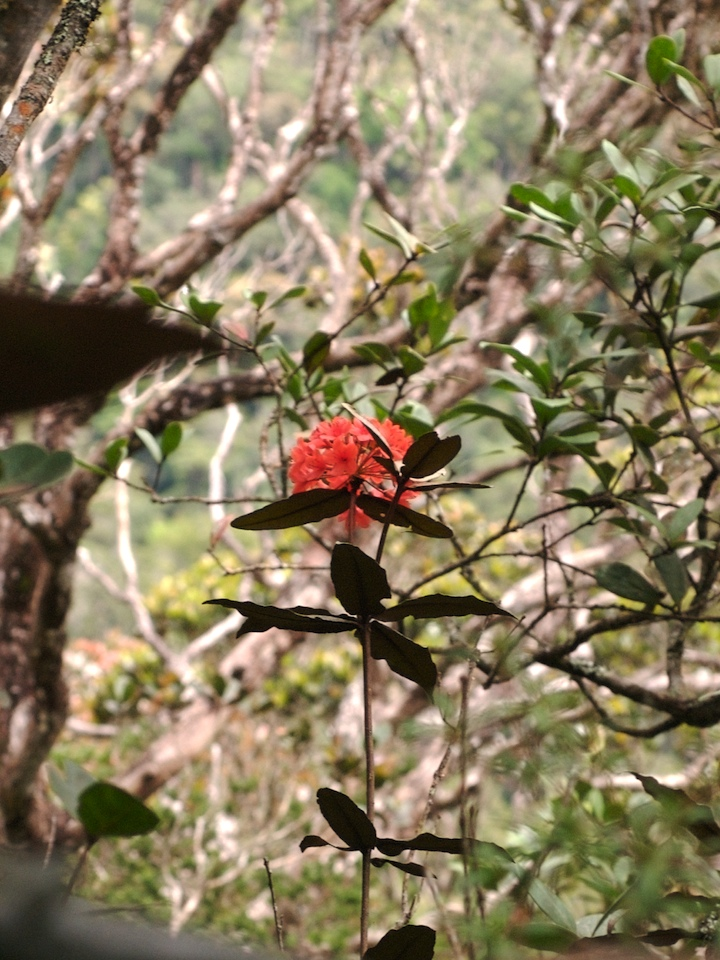 Photographed in Mount Kinabalu National Park, Sabah, Malaysia, Borneo